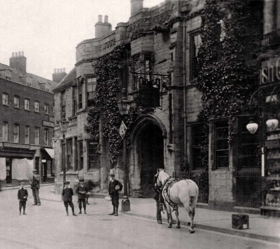 Angel and Royal Hotel and Sharpleys milliners and drapers, Grantham, Lincolnshire, England, pre-WW1. Sharpleys, at No. 1 High Street, a Georgian town house, later converted to a business establishment, was demolished in 1948-49 for the widening of High Street, which was part of the Great North Road route (A1). The site lay demolished until 1960, at which point the local council began instead to build a Grantham Bypass for the A1, making the demolition of Sharpleys of little use for its purposes.